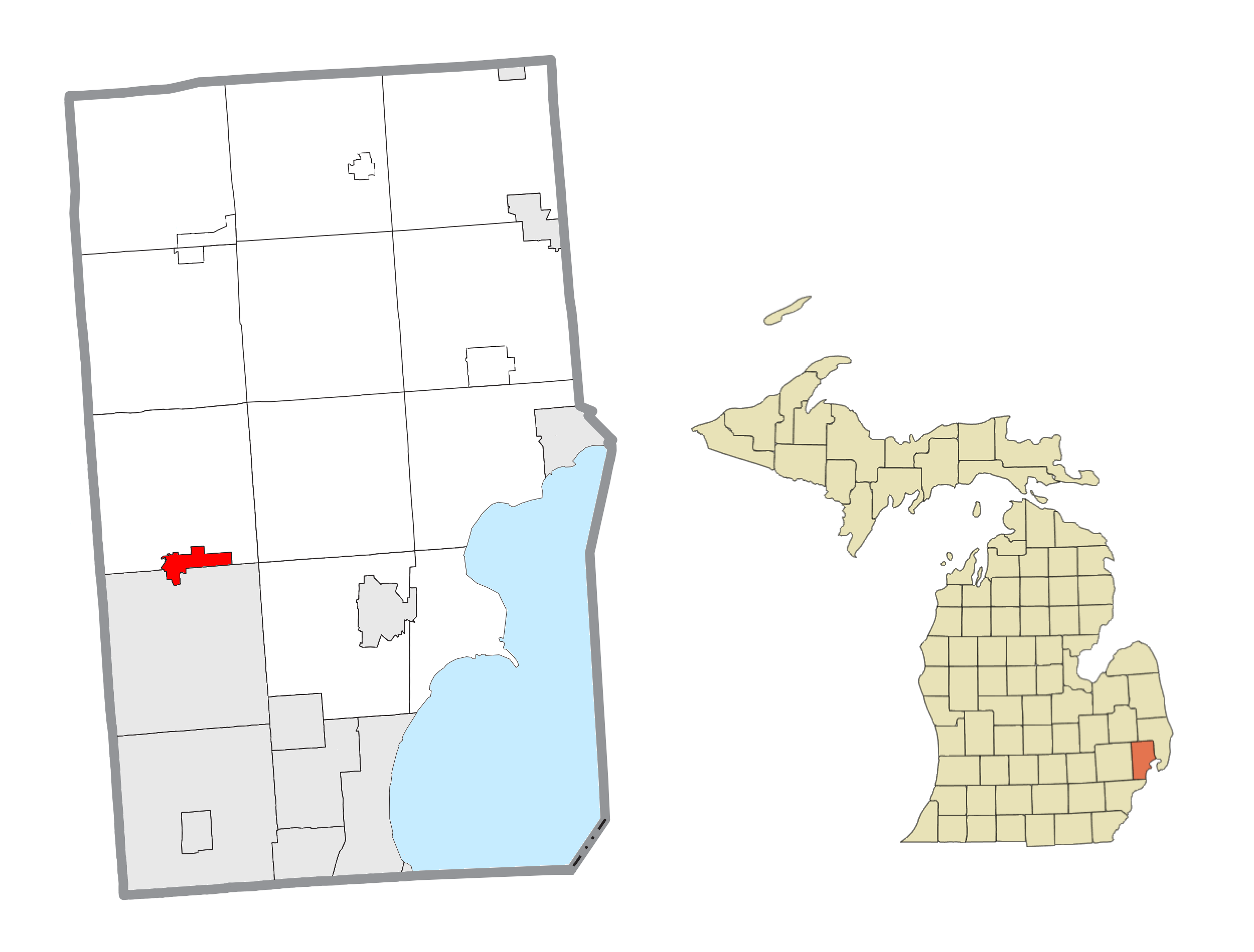 Utica, MI